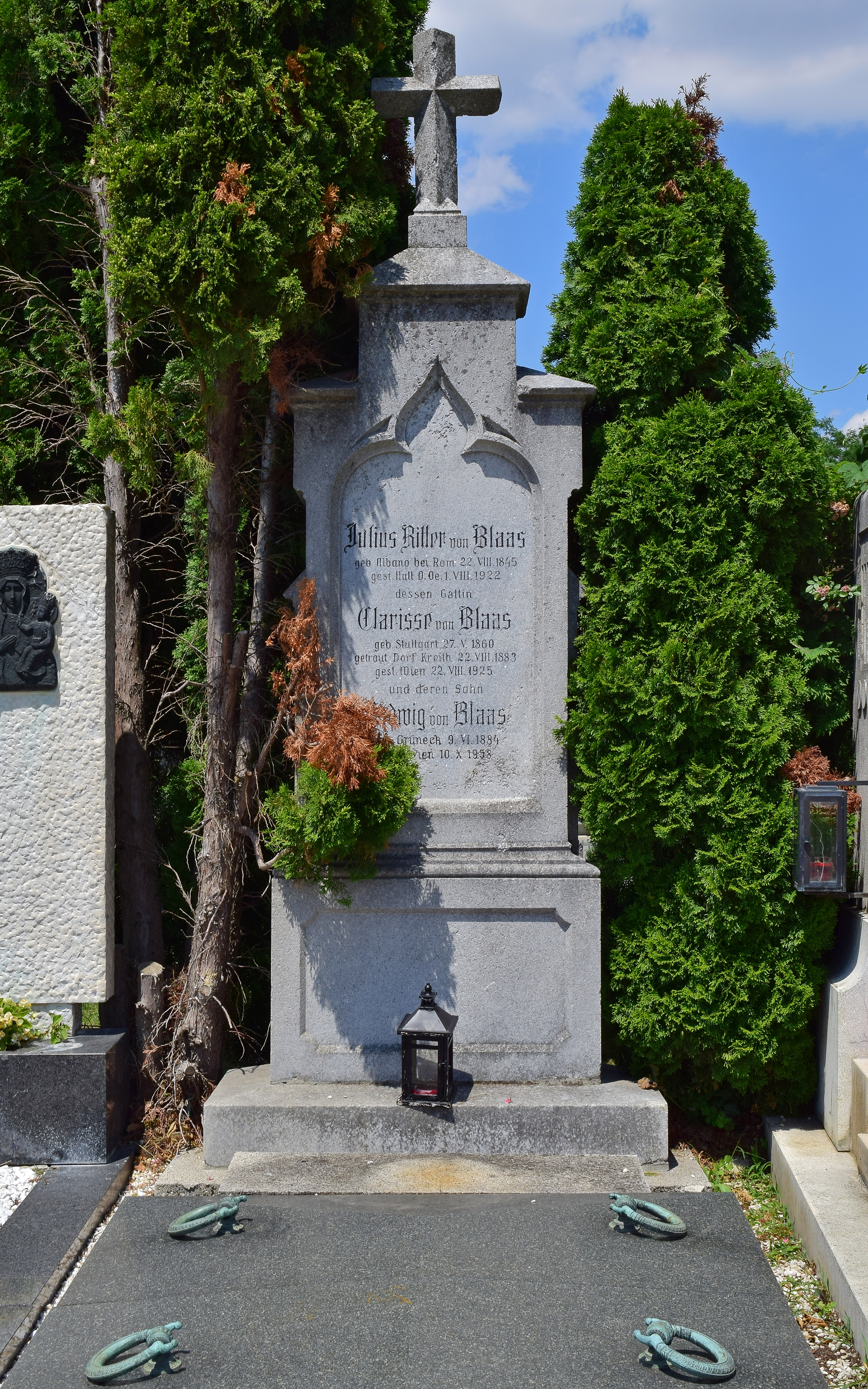 Grave of honor of Julius von Blaas at the Wiener Zentralfriedhof